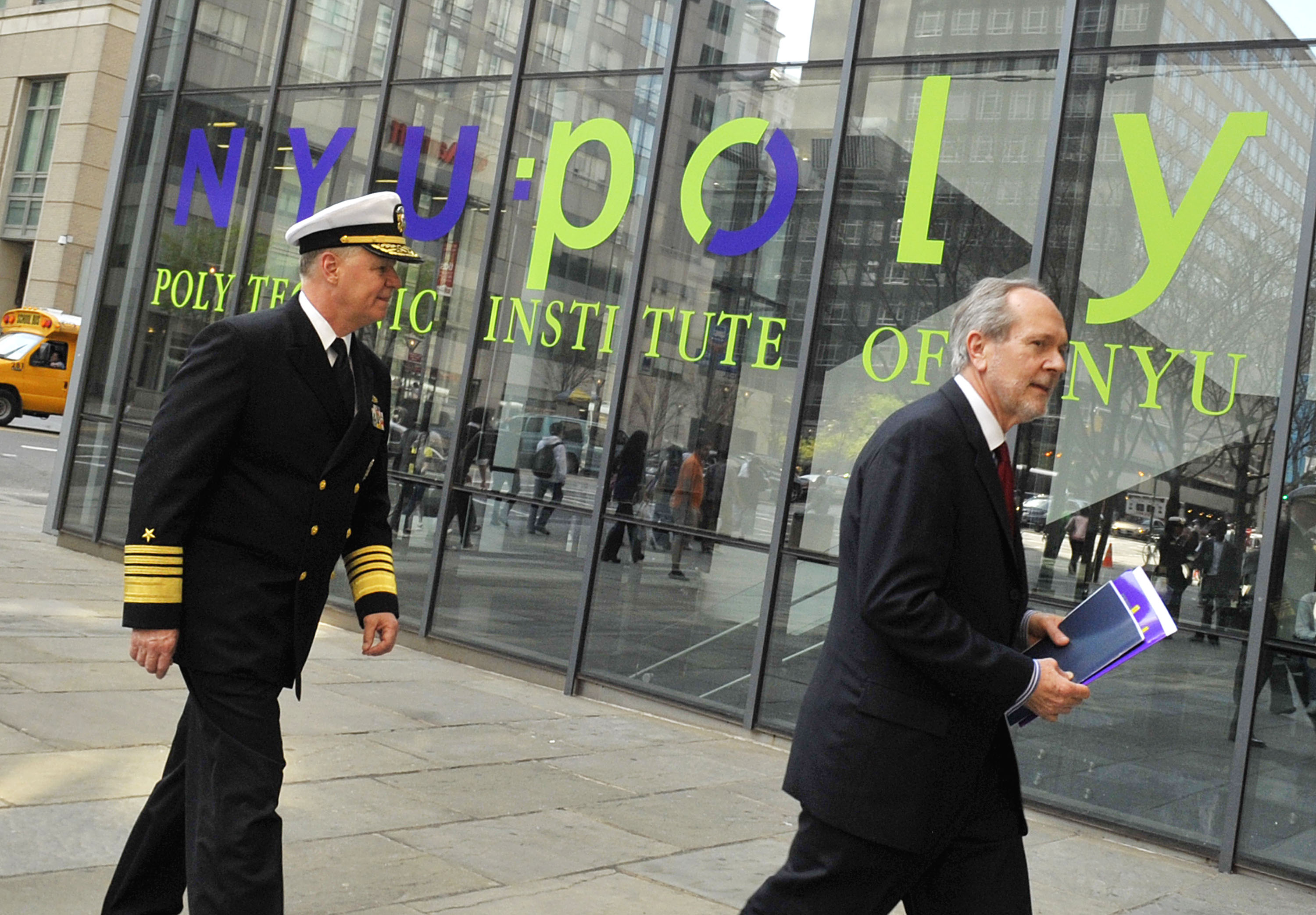 NEW YORK (April 8, 2010) Chief of Naval Operations (CNO) Adm. Gary Roughead receives a tour by Polytechnic Institute of New York University President Jerry Hultin while meeting with students on the campus in Brooklyn, N.Y. (U.S. Navy photo by Mass Communication Specialist 1st Class Tiffini Jones Vanderwyst/Released)